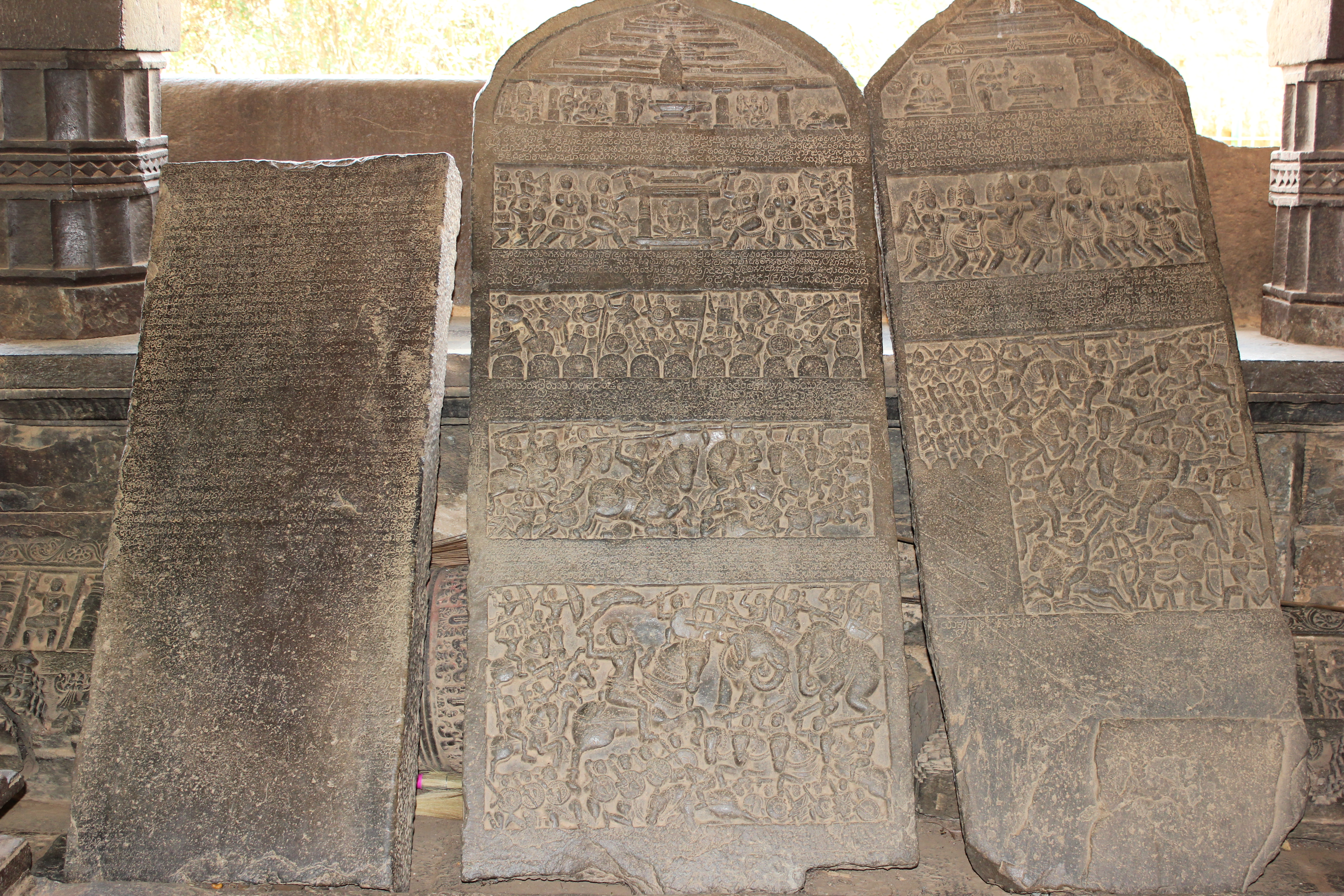 This photograph was taken by me at the Tarakeshwara temple, Hangal, Haveri district of Karnataka state, India. The temple was built slightly prior to 1180 AD under Kadamba dynasty patronage in the Kalyani (western) Chalukyan architectural style. The inscription is dated Saka 1118 (or 1196 A.D.) Source:Pâli, Sanskrit and Old Canarese Inscriptions: From the Bombay Presidency and Parts of the Madras Presidency and Maisûr; John Faithful Fleet, James Burgess; H.M. Stationery Office, 1878 - Inscriptions, Canarese; Page 18, No.106